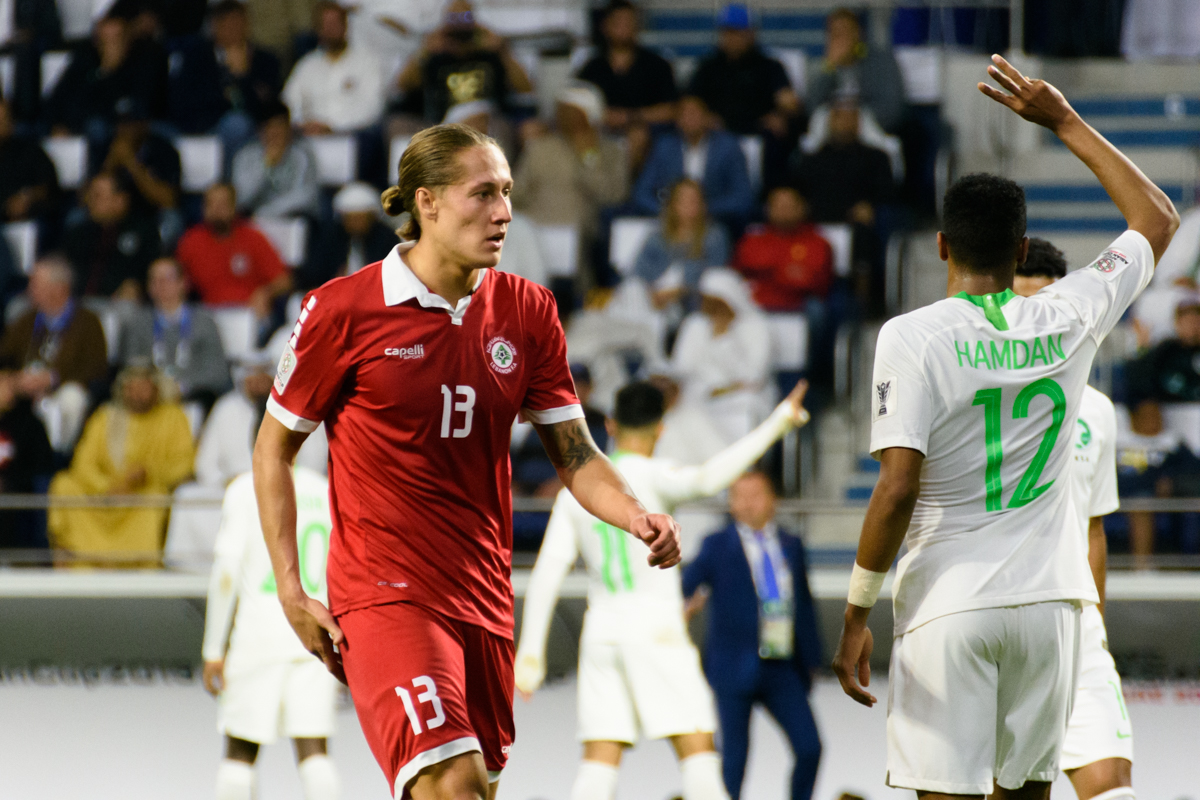 Match scene of Lebanon vs Saudi Arabia (Asian Cup 2019)